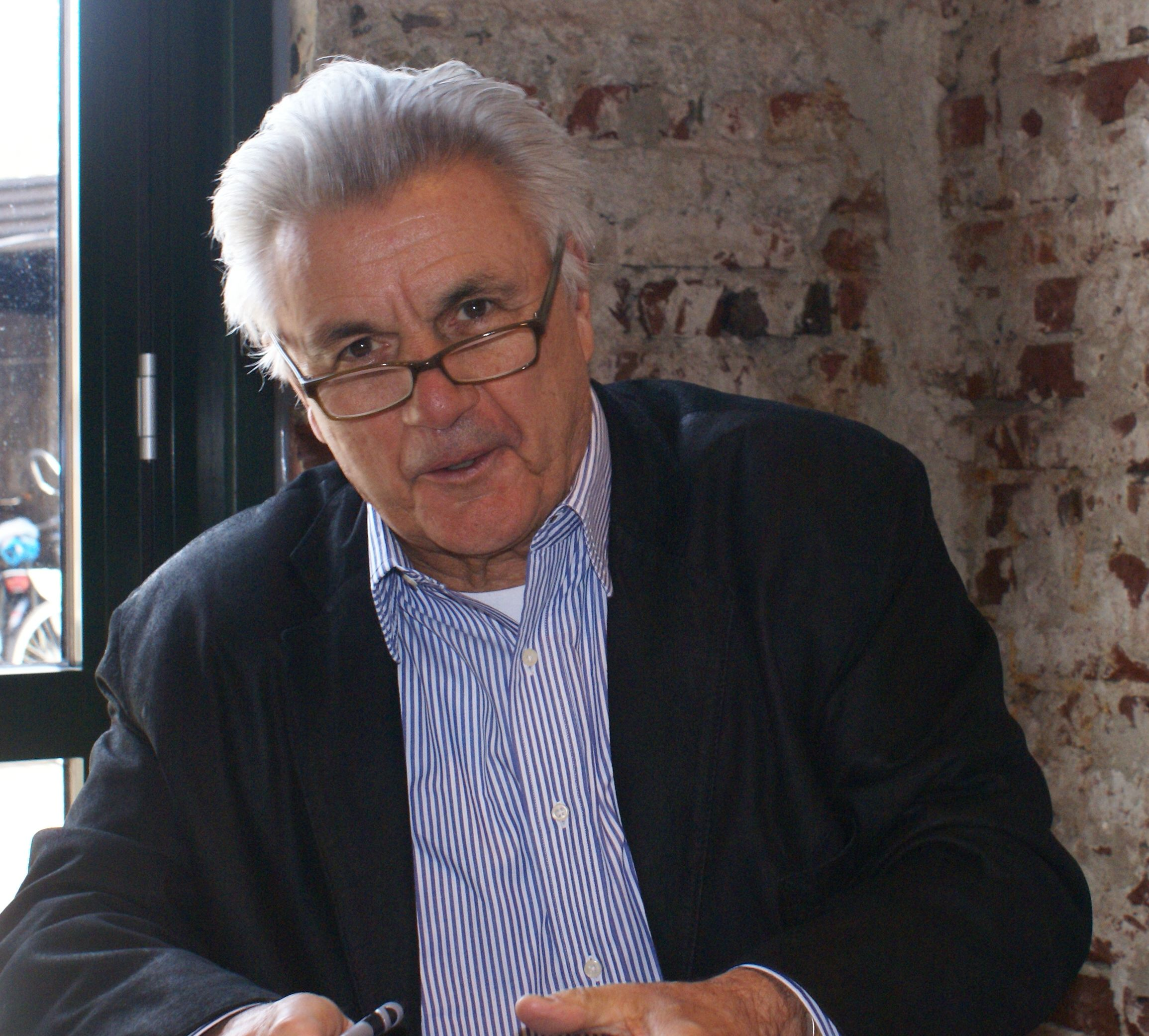 John Irving in Hengelo, Netherlands in March 2010